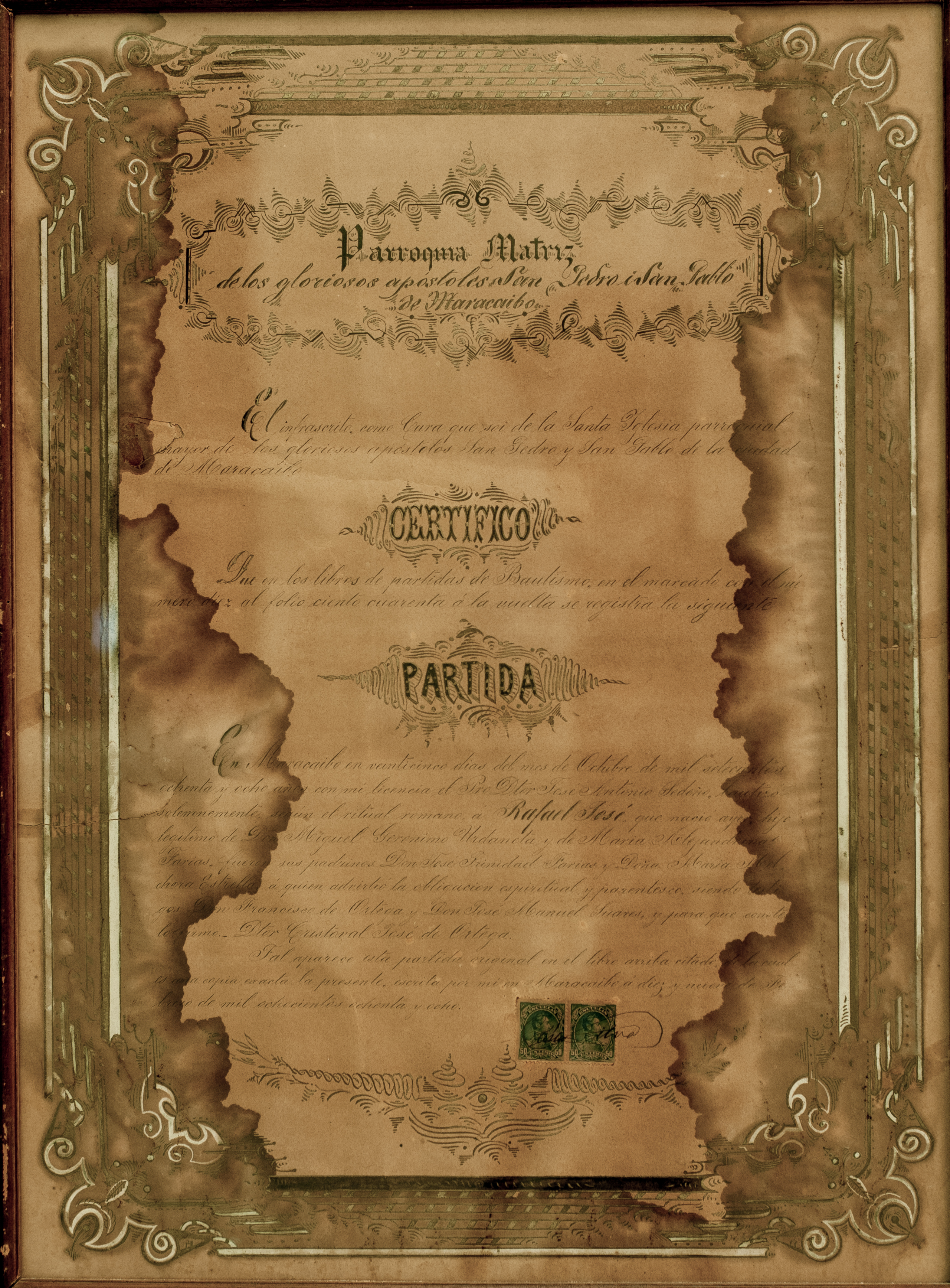 Bautism certified of Urdaneta General